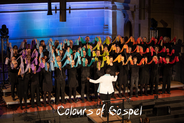 Gospelchoir Colours of Gospel Mainz, Germany, Christuskirche, Mainz, Night of Gospel on 2018-12-08